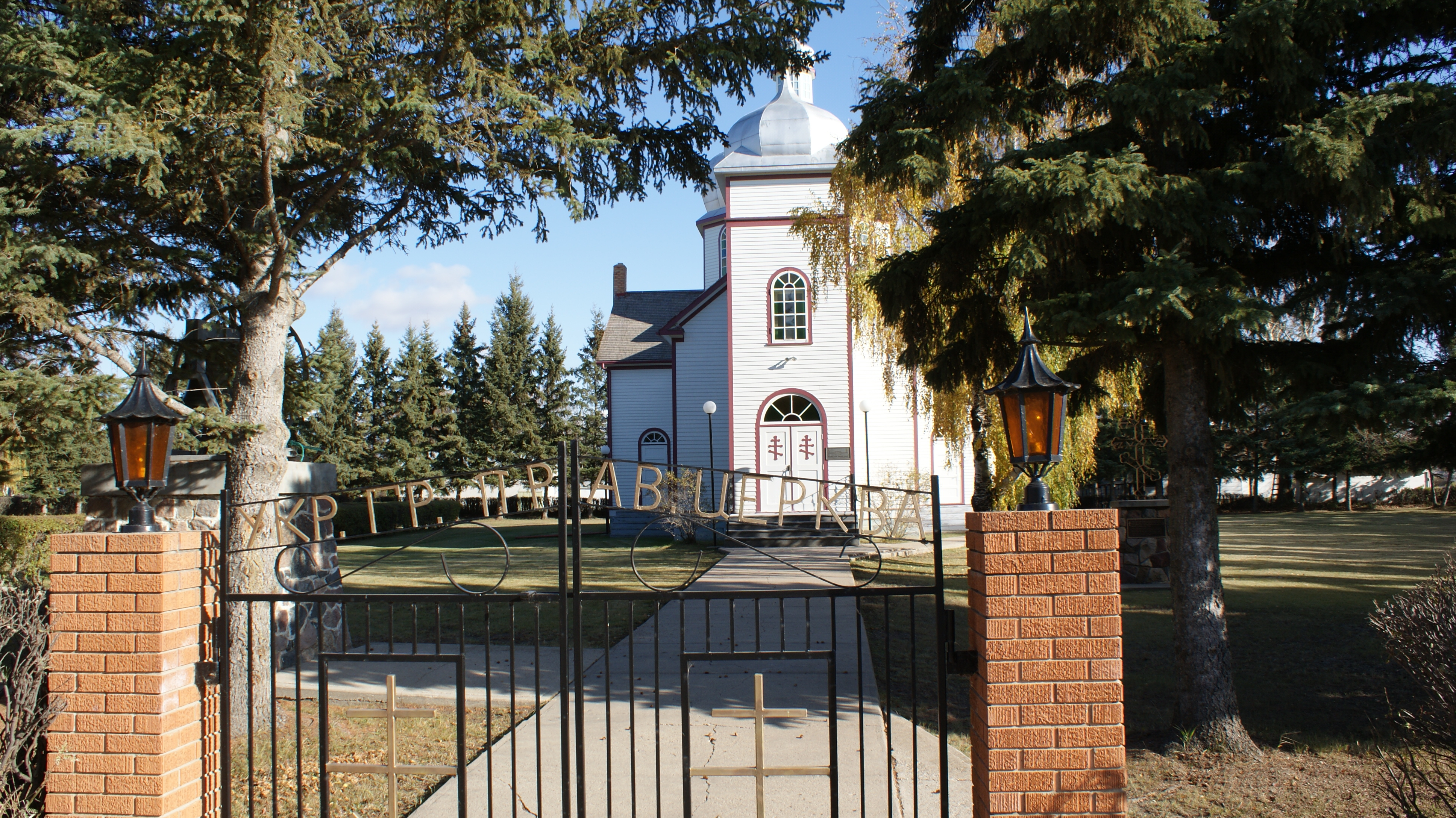 Church in Hafford - Holy Ghost Ukrainian Greek Orthodox Church